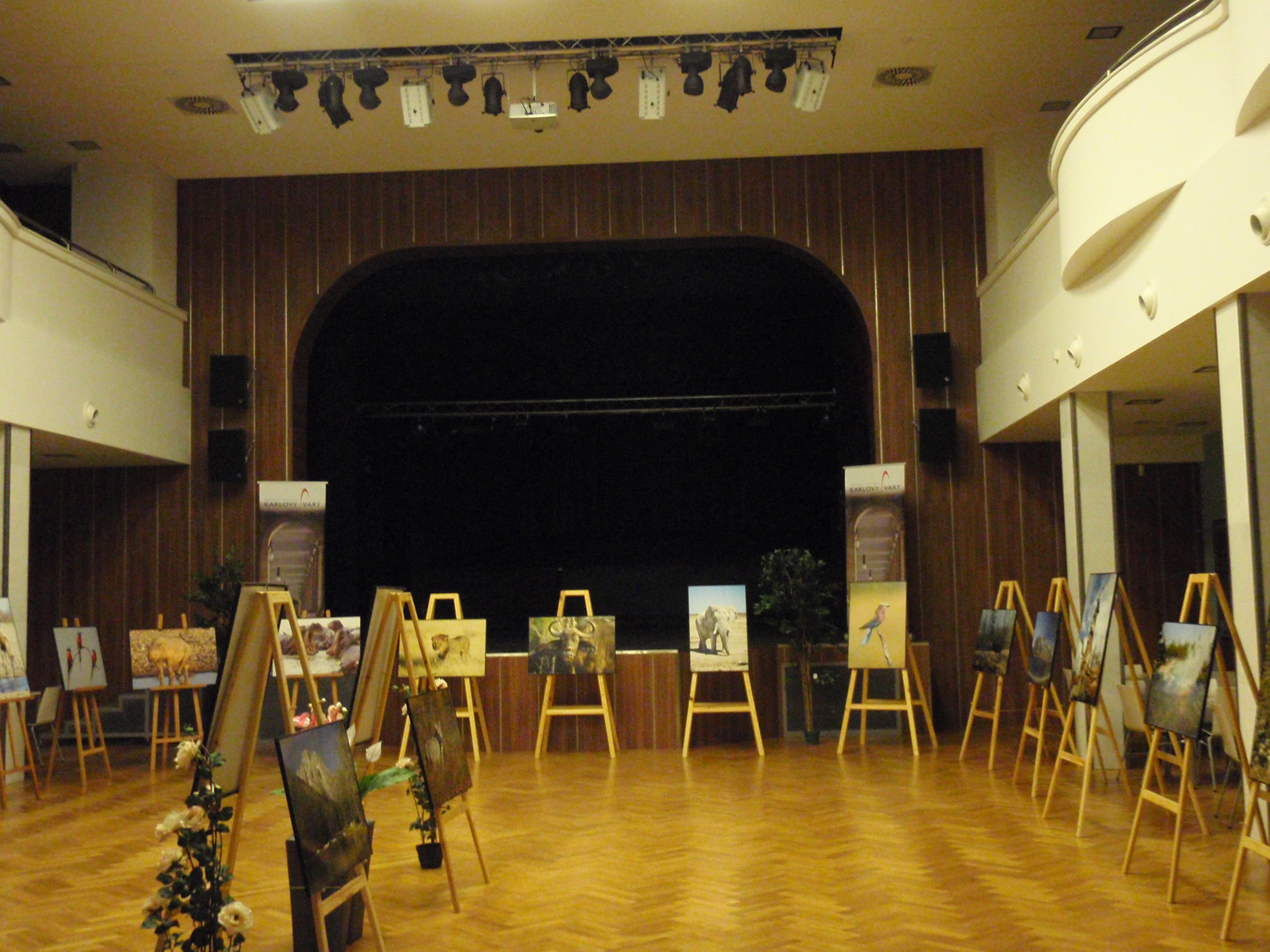 Fixed room in the People's House